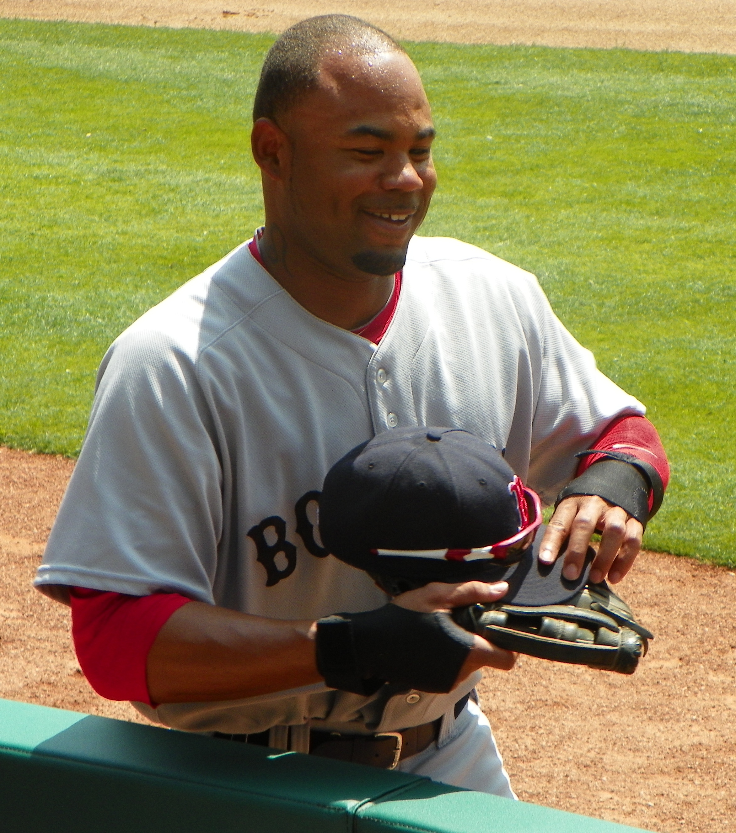 Carl Crawford between innings in an April game at Texas.